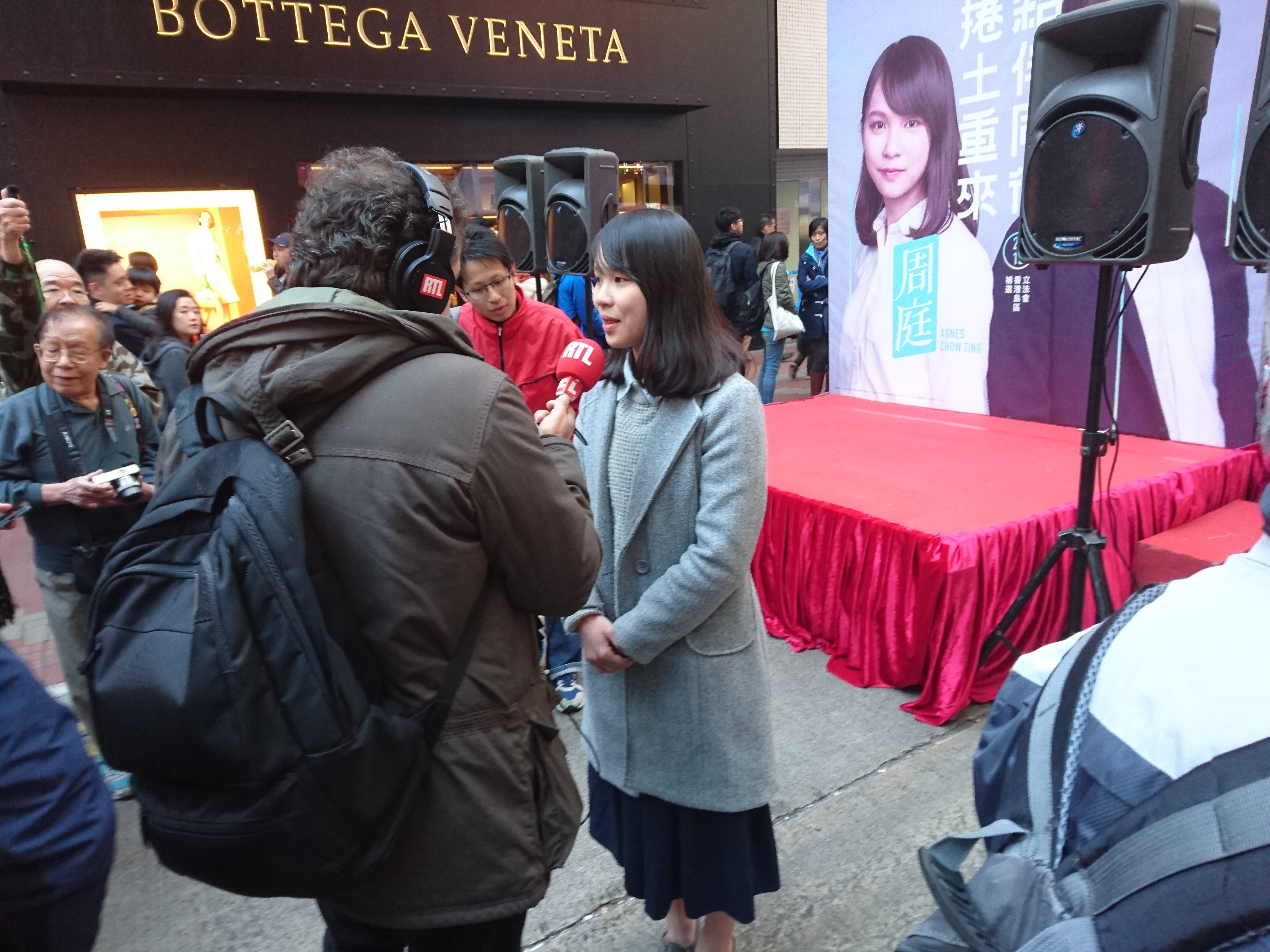 Agnes Chow being interviewed in Jan 2018 (2)